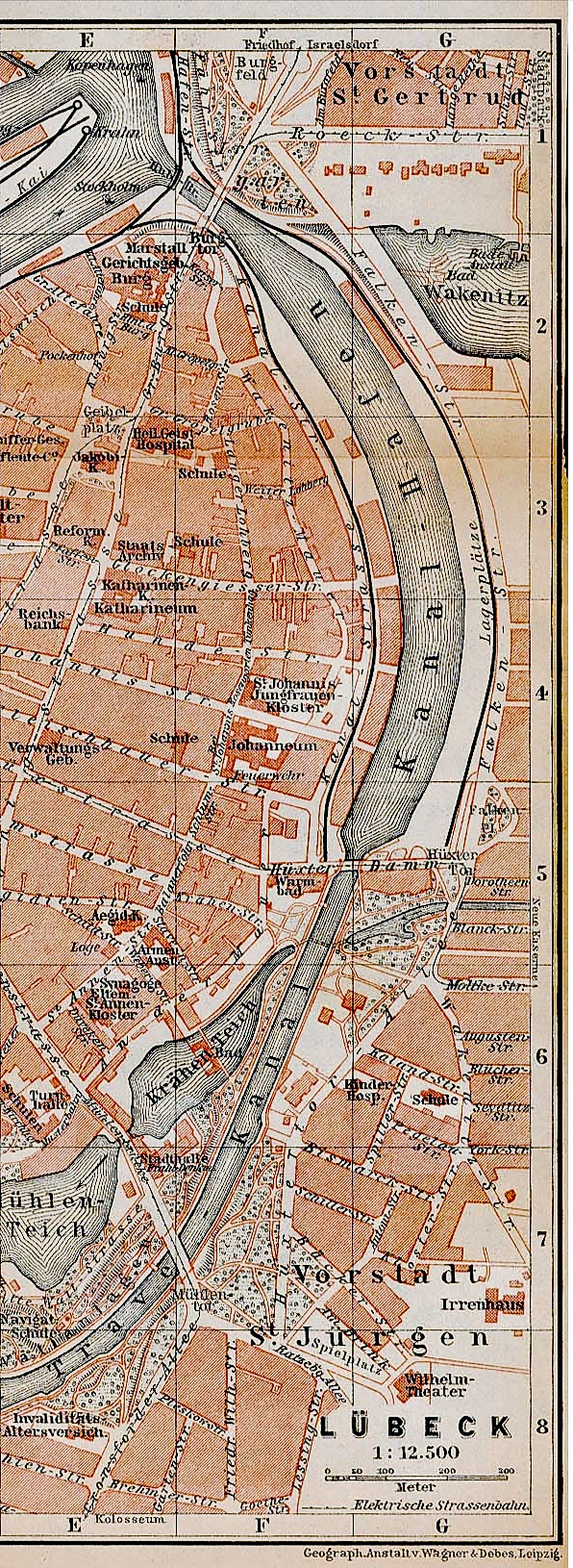 Excerpt of the Baedeker map of Lübeck from 1910, created from a scan by University of Texas at Austin